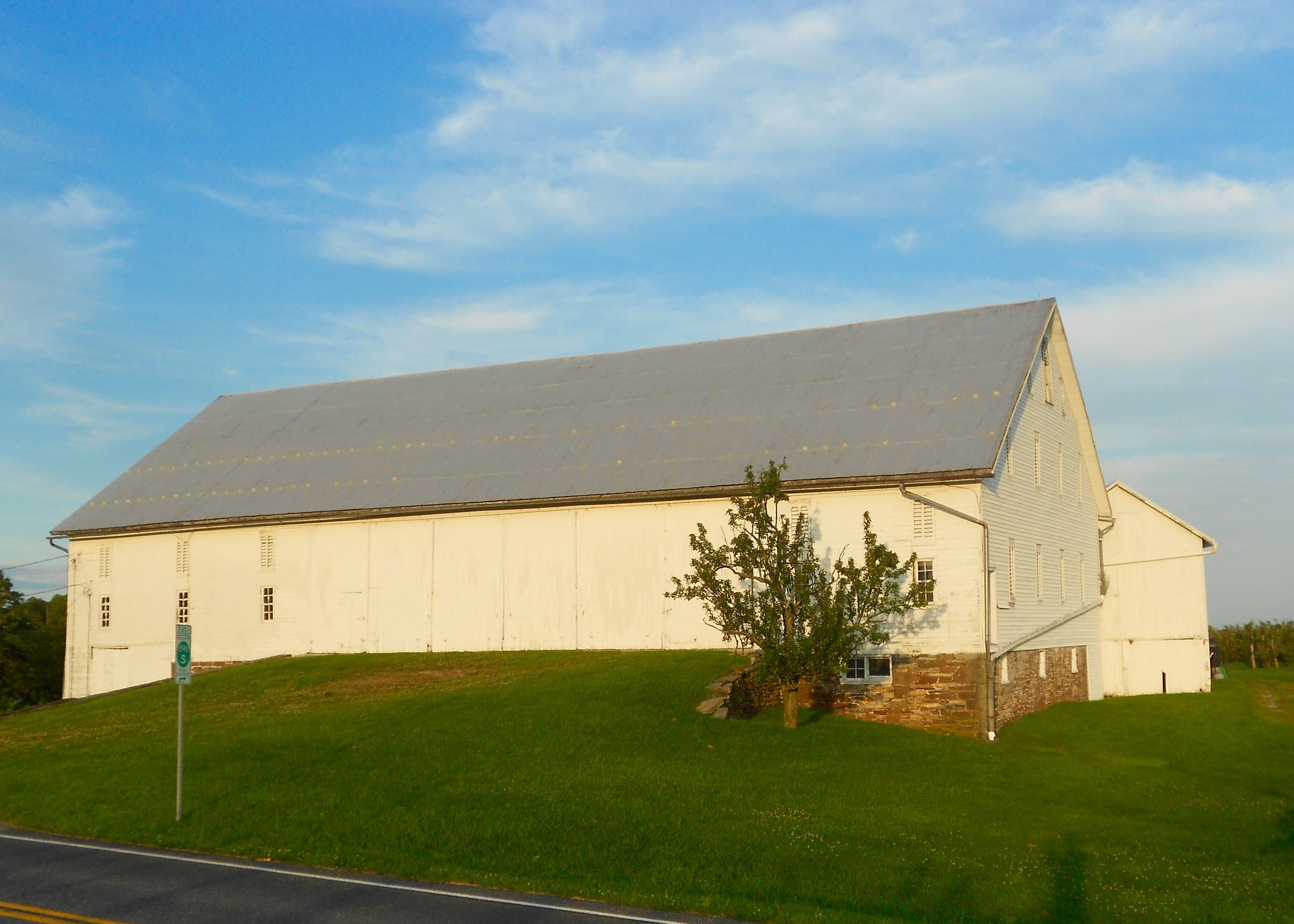 Barn in Butler Township, Cumberland County, Pennsylvania east of Arendtsville